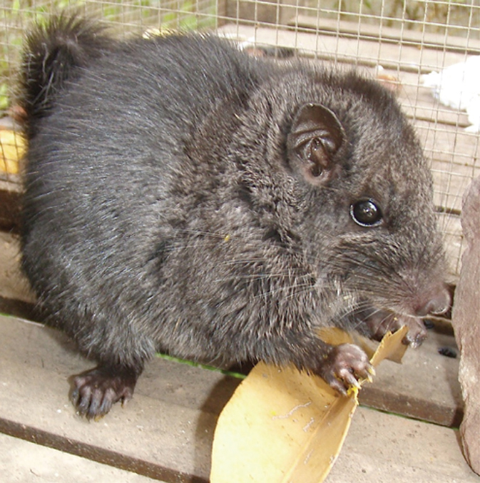 Young male Laotian rock rat, Laonastes aenigmamus (Diatomyidae, Rodentia). The original PLOS ONE image has been modified by cropping.